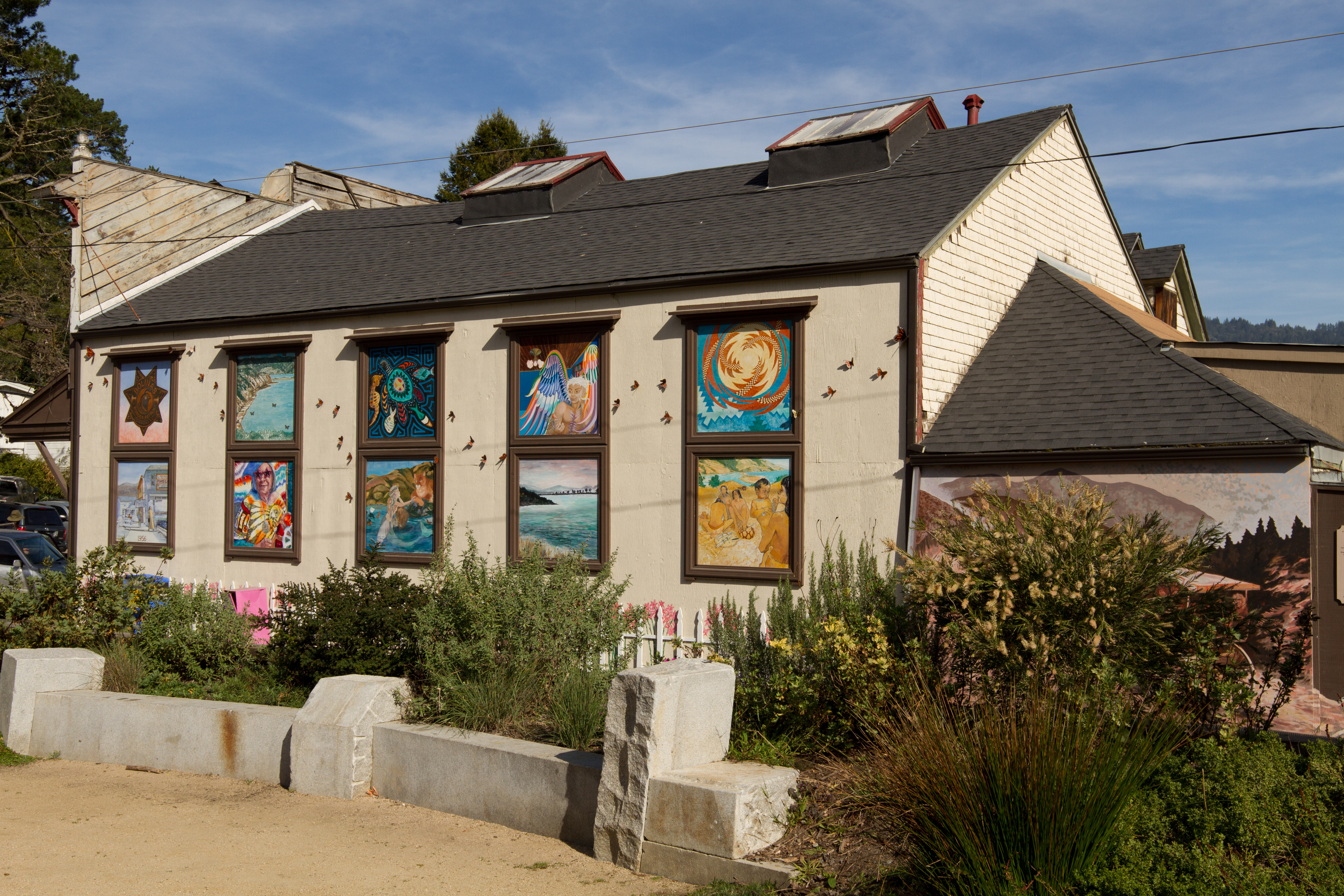 Bolinas, California, in 2015. Bolinas Community Center.